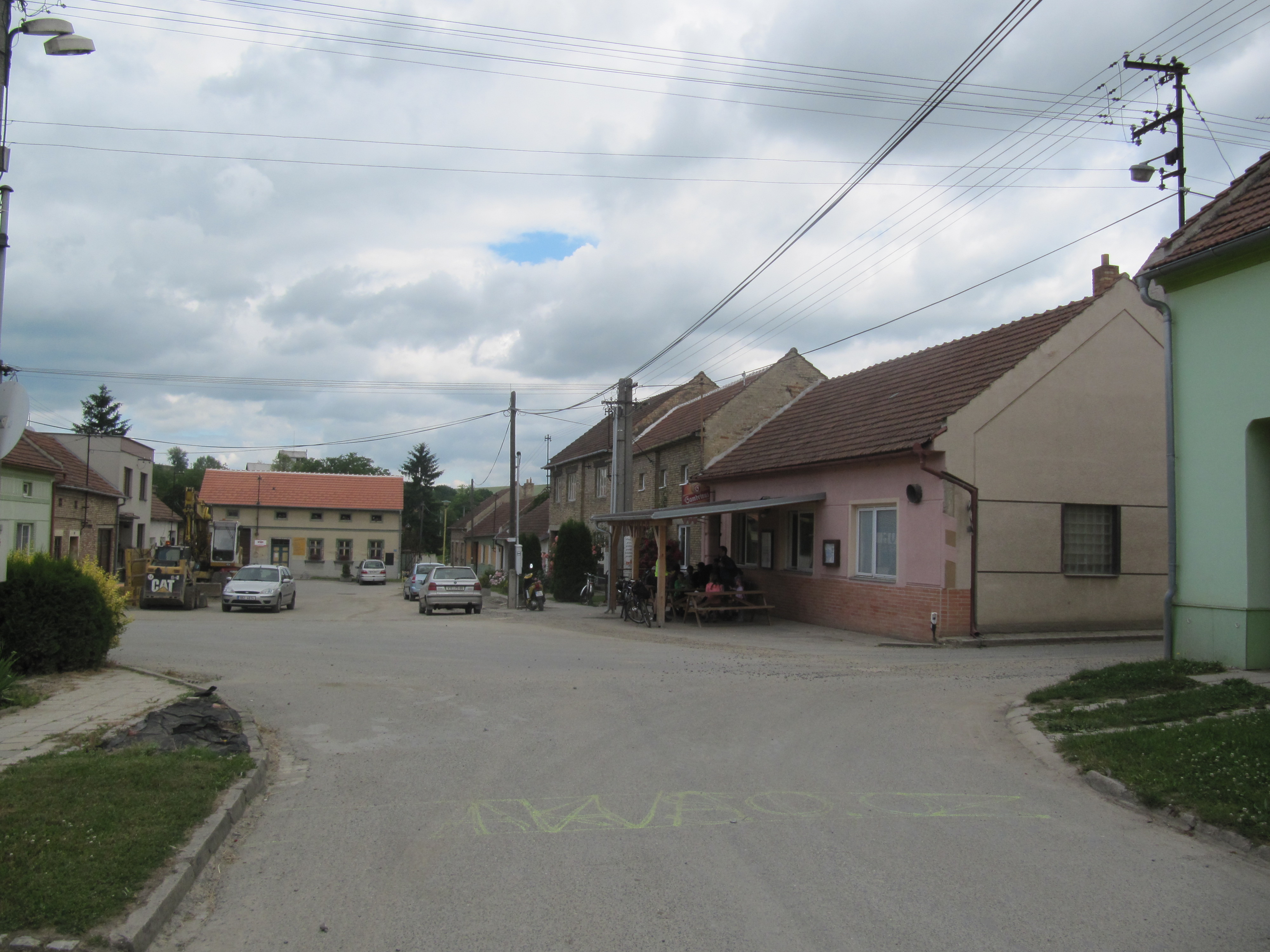 Nesovice, Vyškov District, Czech Republic, part Letošov.